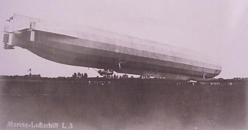 Marine-Luftschiff L 3